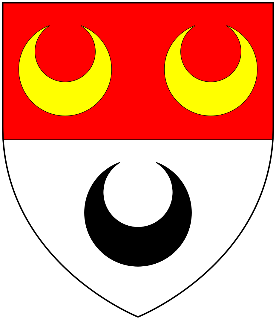 Arms of Docton of Docton, in the parish of Hartland, Devon: Per fess gules and argent, two crescents in chief or another in base sable (*Vivian, Lt.Col. J.L., (Ed.) The Visitation of the County of Devon: Comprising the Heralds' Visitations of 1531, 1564 & 1620, Exeter, 1895, p.286)